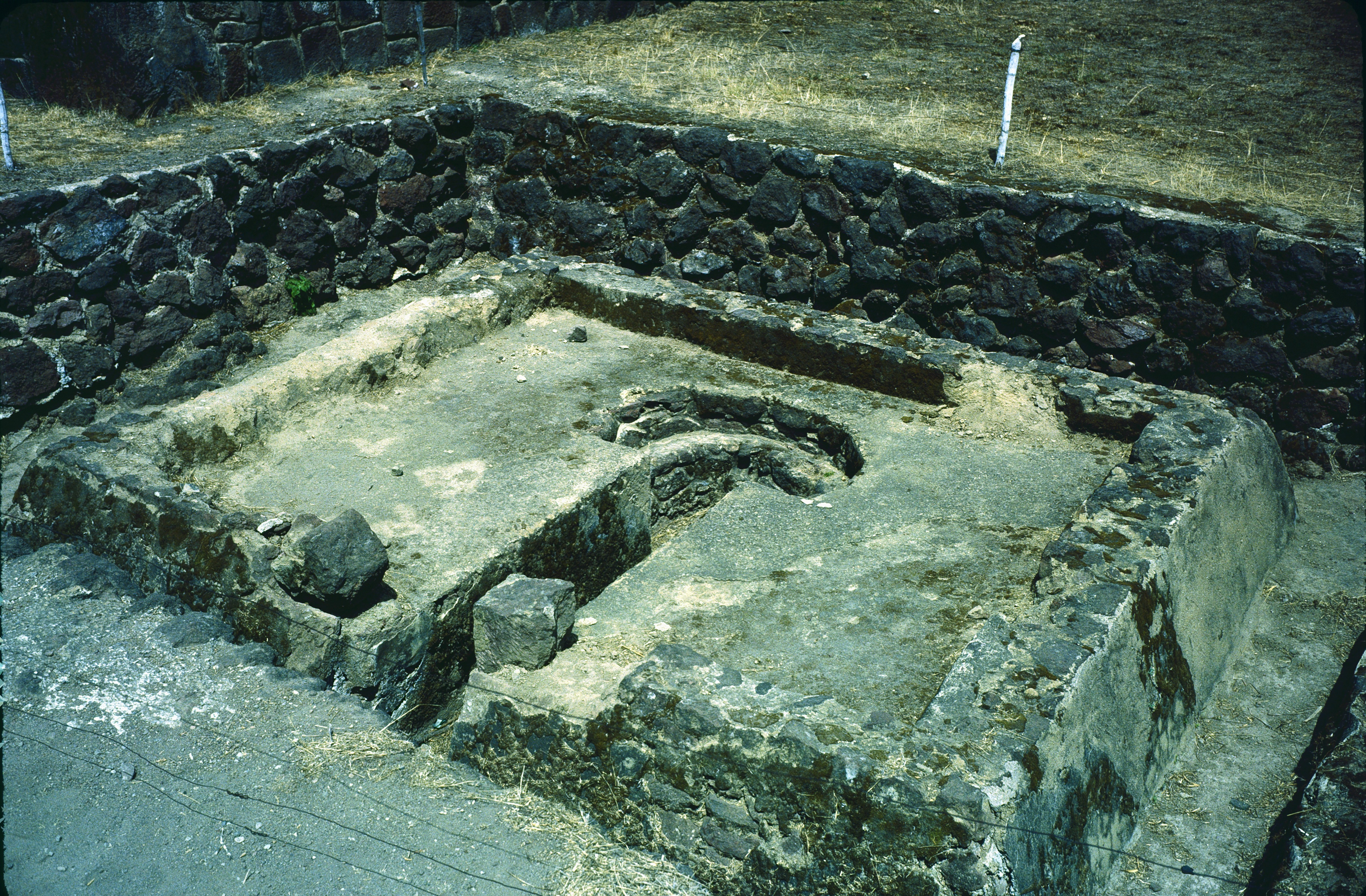 Teotenango, Estado de México, Mexico: ball court (Temazcal)